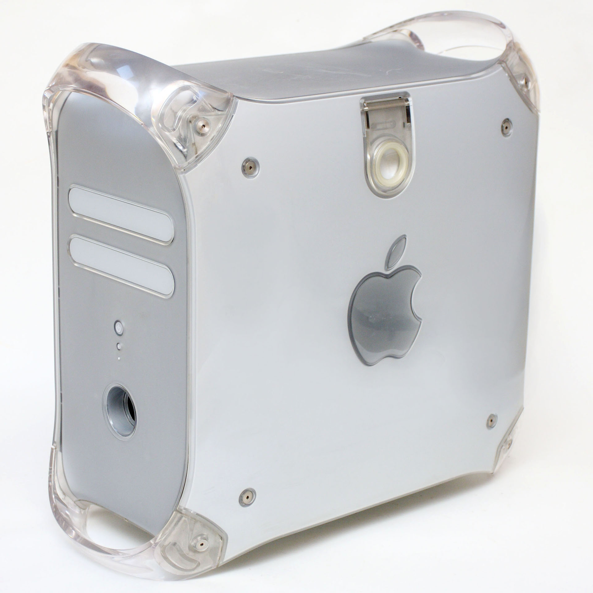 Apple PowerMac G4 M8493 ("QuickSilver" model)